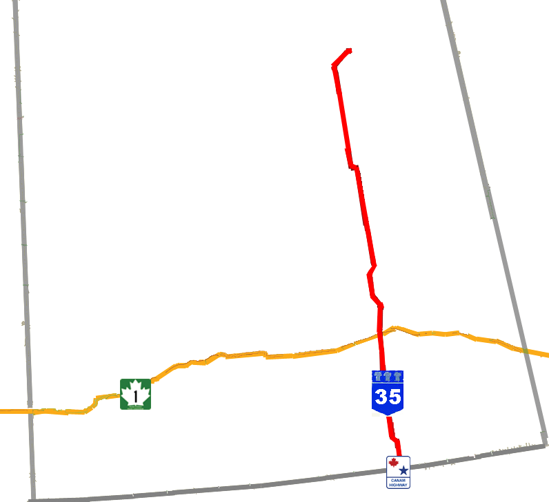 Map for Saskatchewan Highway 35